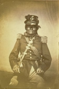 Ohatchecama, a Tolkepaya Yavapai leader who was tried and arrested for taking part in the Wickenburg Massacre